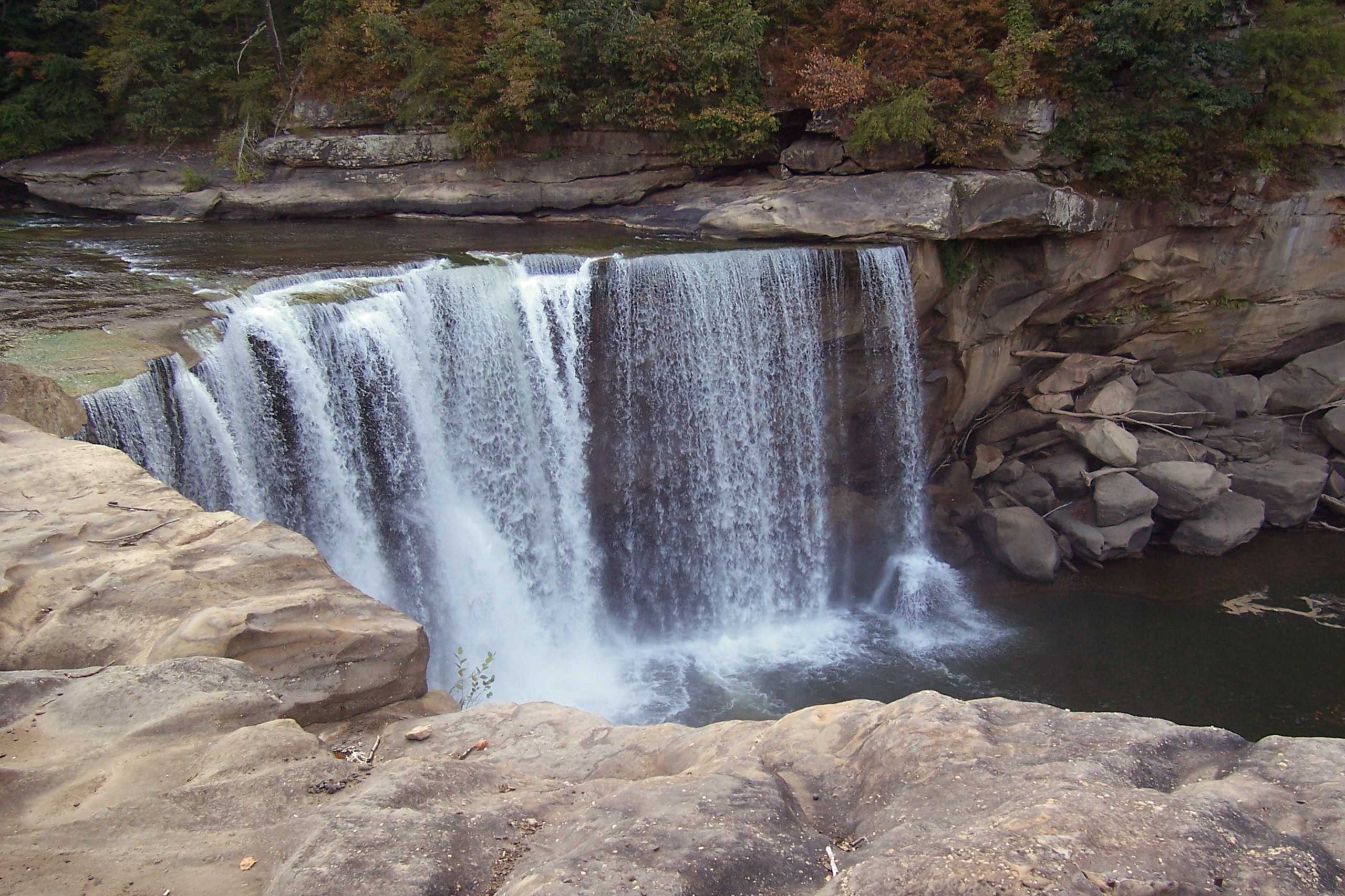 Cumberland Falls, Kentucky, taken late September 2005